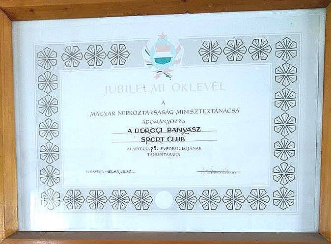 The gift and honor of Hungarian Government to sport club of Dorog for the club 75th anniversary of foundation. The certificate was signed by Miklos Nemeth president.